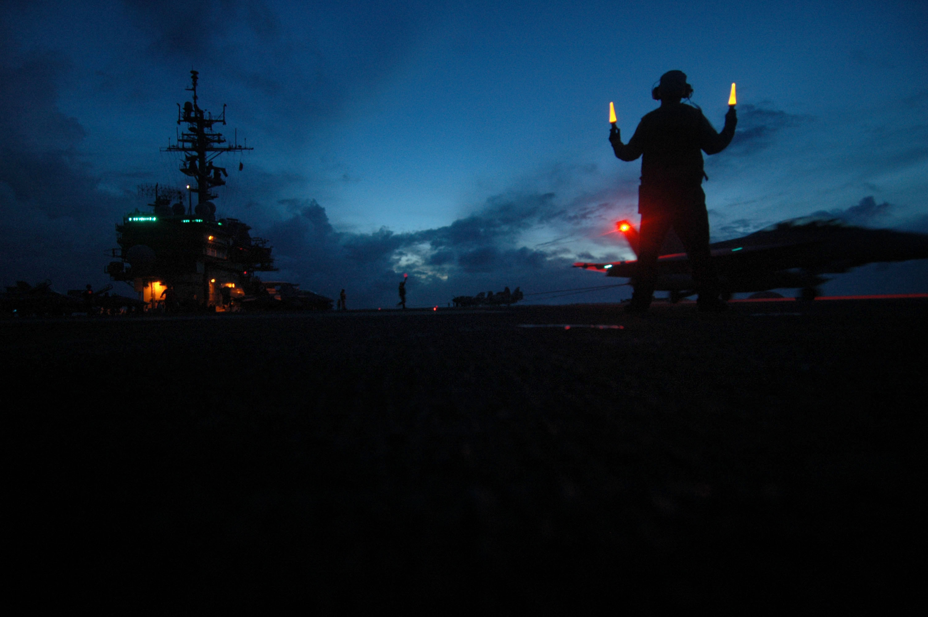 Images from Valiant Shield - public domain as original creations of the United States government. Uploaded by Johntex PACIFIC OCEAN (June 22, 2006) – An air department Sailor prepares to direct an F/A-18C Hornet after it lands on the flight deck of USS Kitty Hawk (CV 63) during night flight operations. The Hornet is an all weather, attack aircraft that can also be used as a fighter. The Kitty Hawk Carrier Strike Group is currently participating in Valiant Shield 2006, the largest joint exercise in recent history. Held in the Guam operating area June 19-23, the exercise involves 28 Naval vessels including three carrier strike groups. Nearly 300 aircraft and approximately 22,000 service members from the Navy, Air Force, Marine Corps, and Coast Guard are also participating in the exercise. U.S. Navy photograph by Photographer's Mate Airman Benjamin Dennis. F/A-18 Hornet, Valiant Shield, USS Kitty Hawk (CV-63)